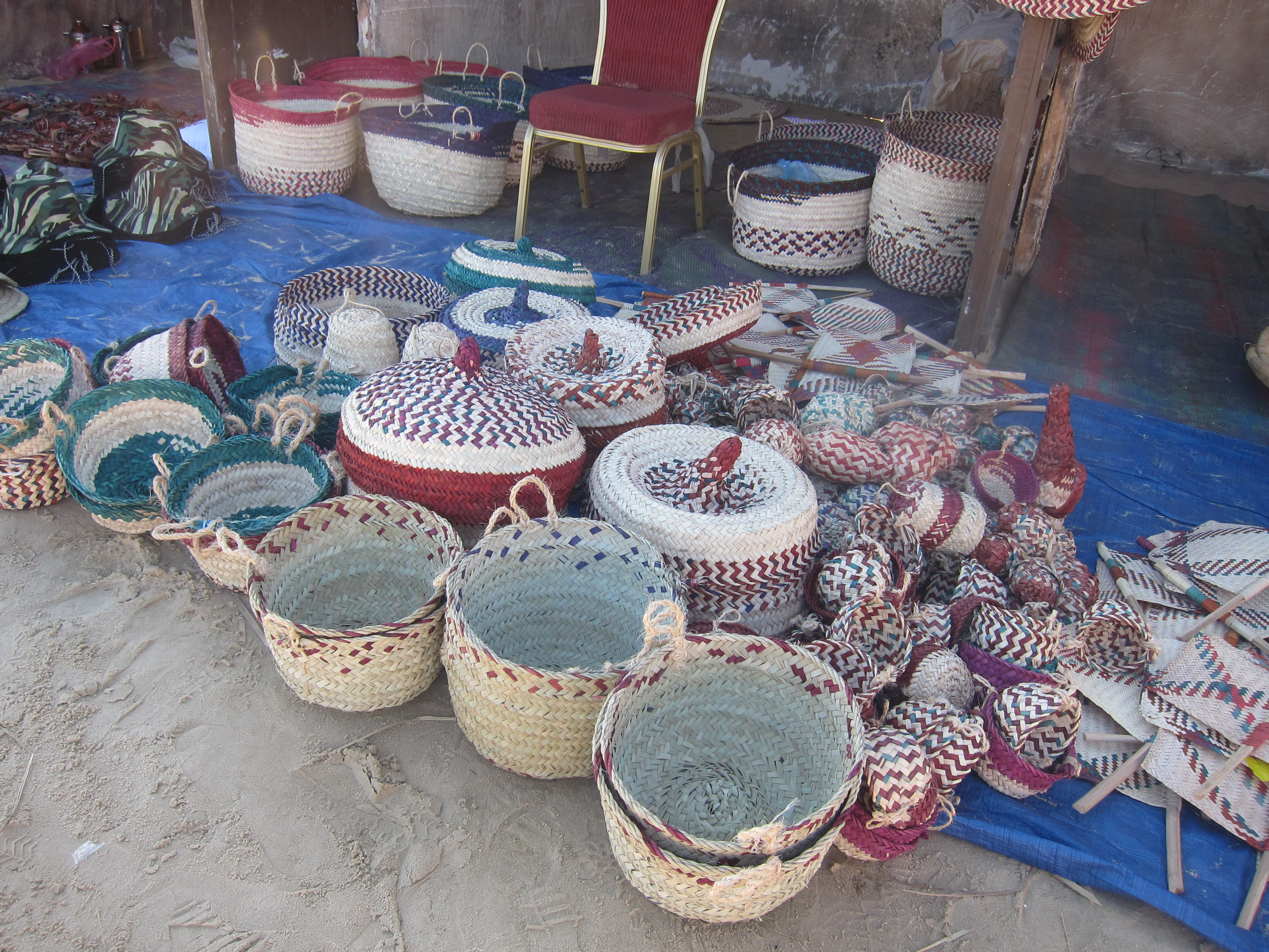 Saudi Culture - സൗദി സംസ്കാരം